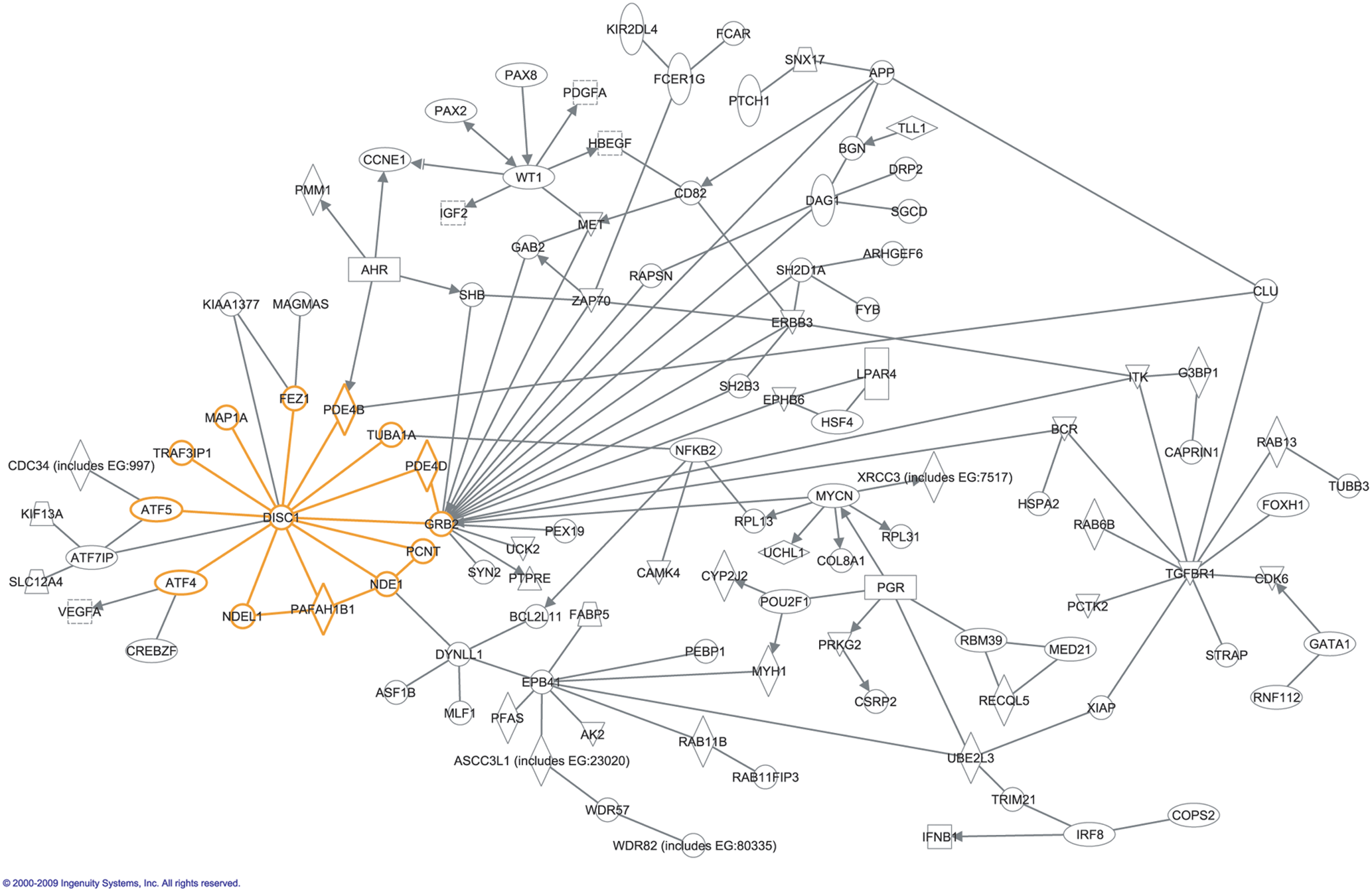 Figure 2. Network of how 100 of the 528 genes identified with significant differential expression relate to DISC1and its core interactors. Network generated through the use of Ingenuity Pathway Analysis (Ingenuity Systems®, using the build function and connecting the identified genes to the core DISC1 interactome, only allowing for direct interaction. Relationships are supported by at least 1 reference from the literature, from a textbook, or from canonical information stored in the Ingenuity knowledge base.